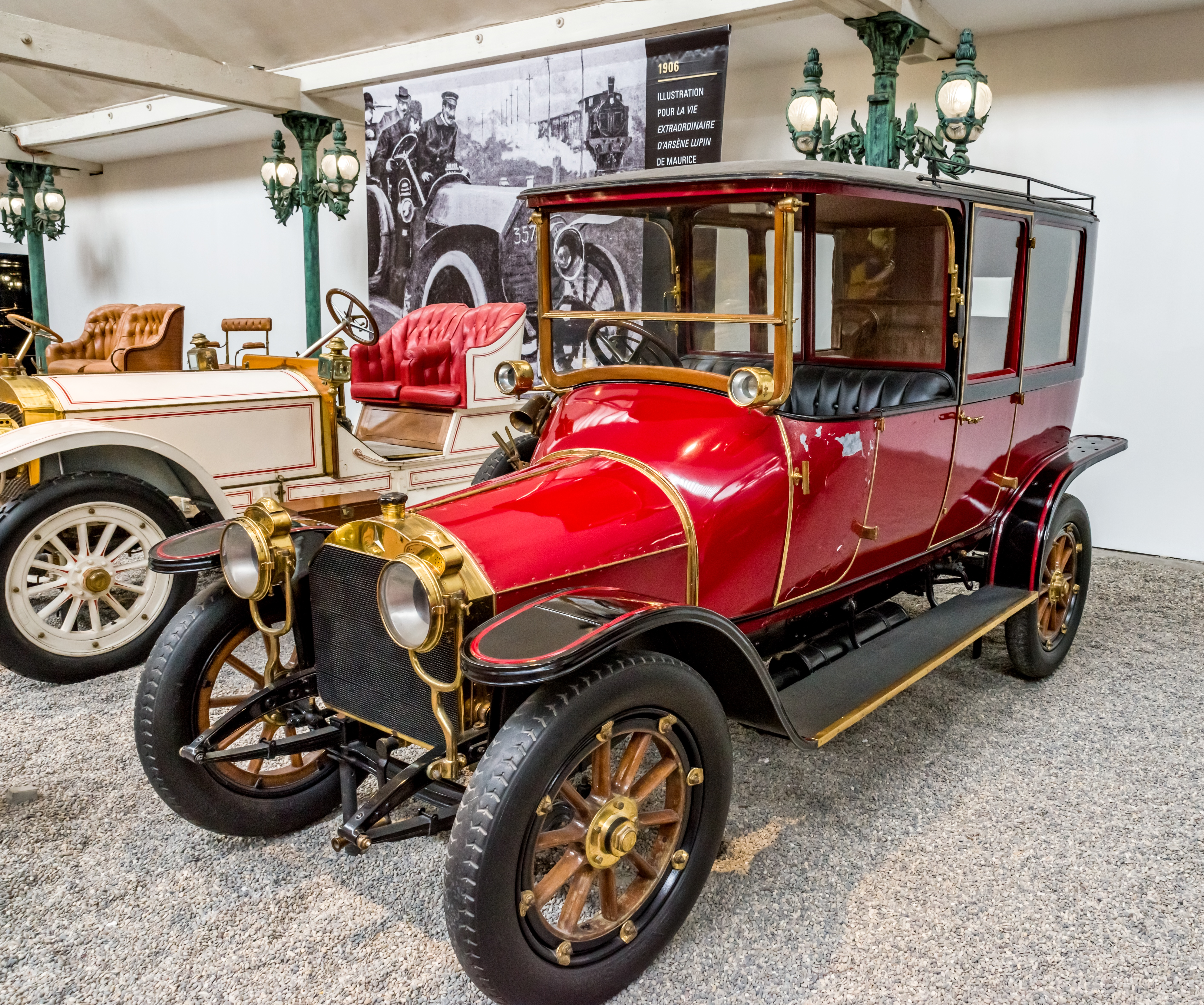 pictures from the Cité de l’Automobile – Musée National – Collection Schlump in Mulhouse, France ptictures from the 10. may 2018